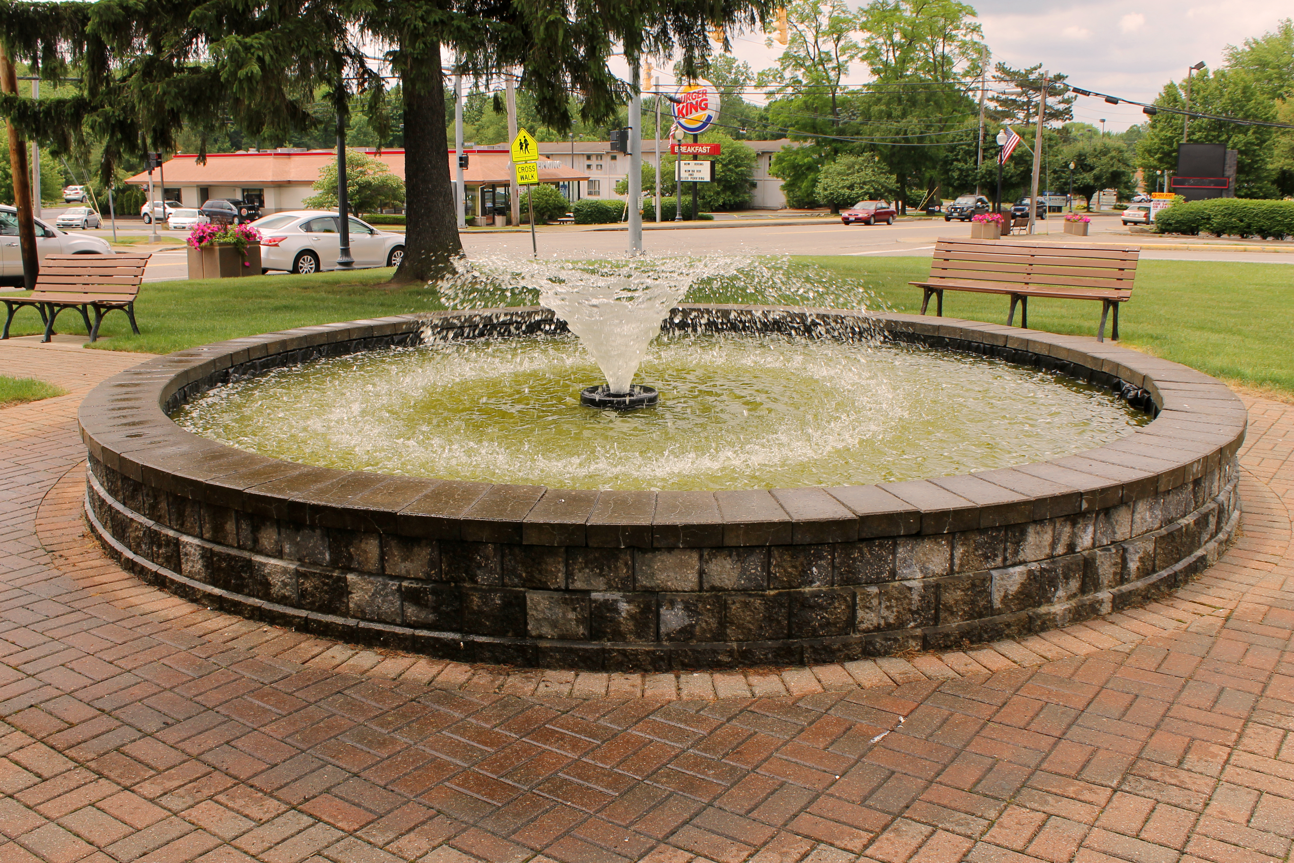 Fountain in Richard E. Orwig Park, Howland, Ohio at corner of E Market St and Willow Drive